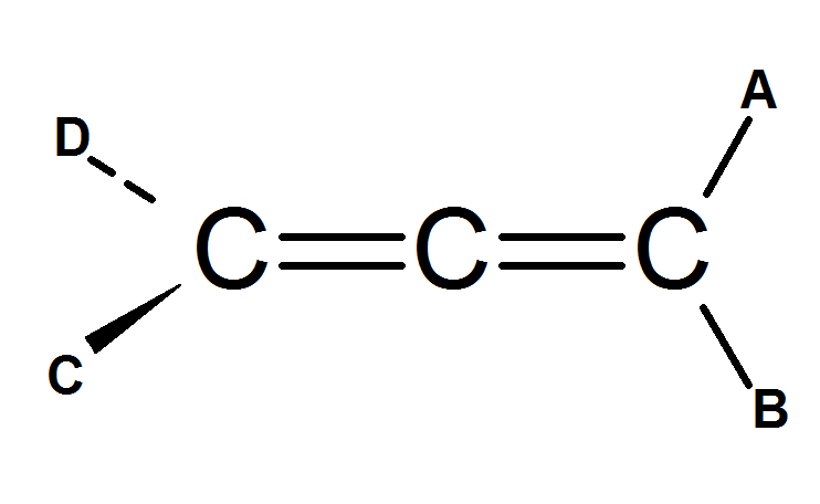 Chiral substituated allene